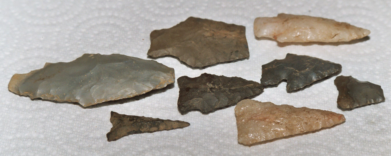 chert or flint arrowheads and spearheads.